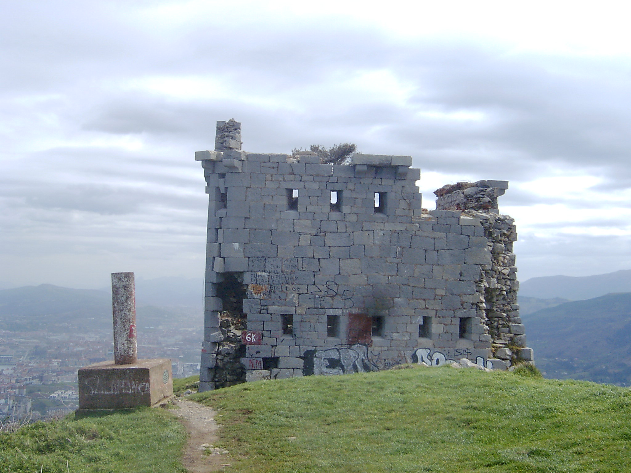 Serantes mounts summit; triangulation point